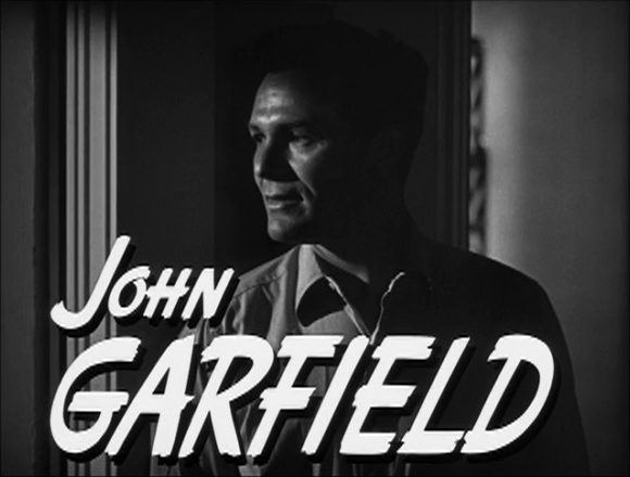 Cropped screenshot of John Garfield from the trailer for the film The Postman Always Rings Twice.